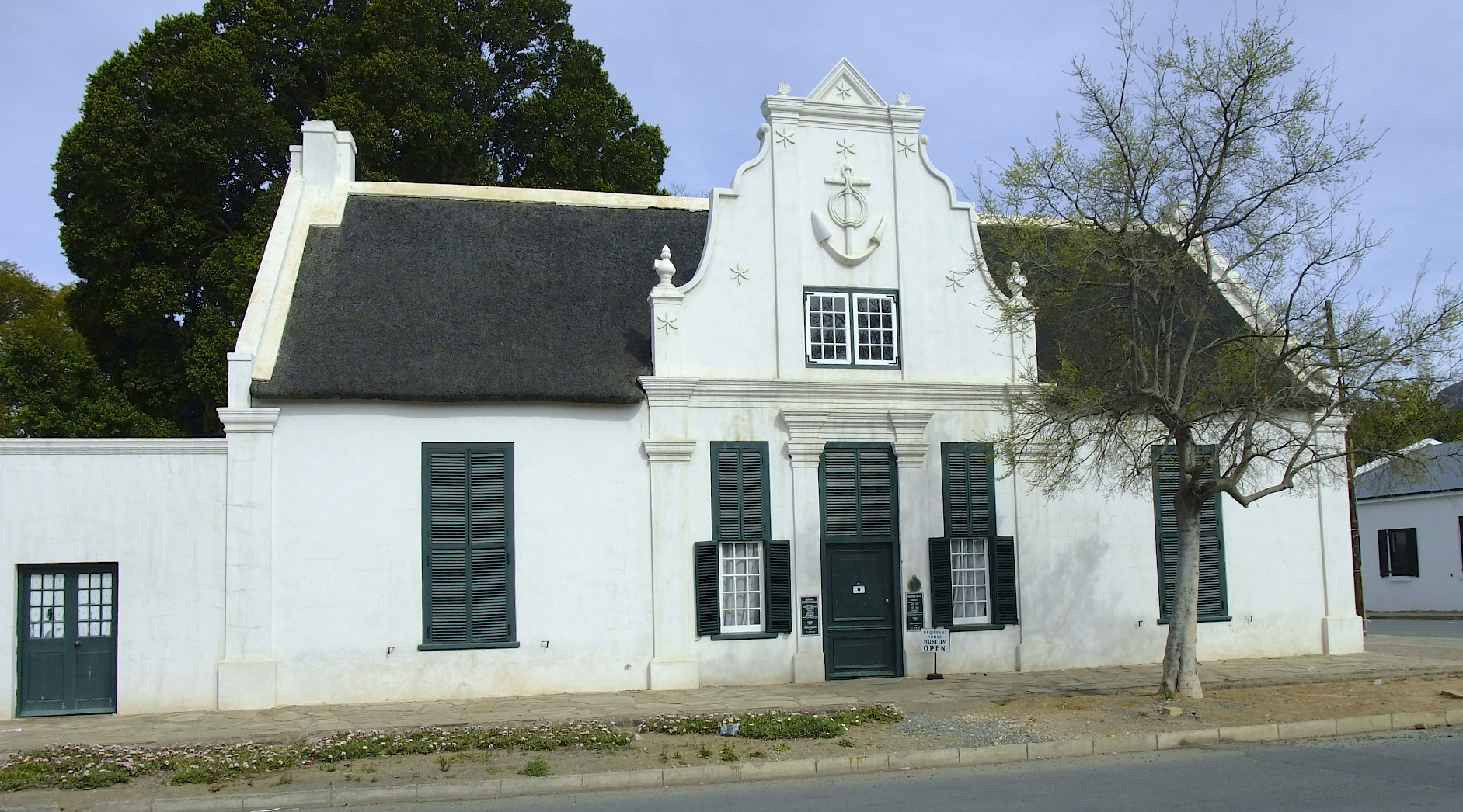 Urquhart House in Graaff Reinet This media shows a South African Protected Site with SAHRA file reference 9/2/033/0004.